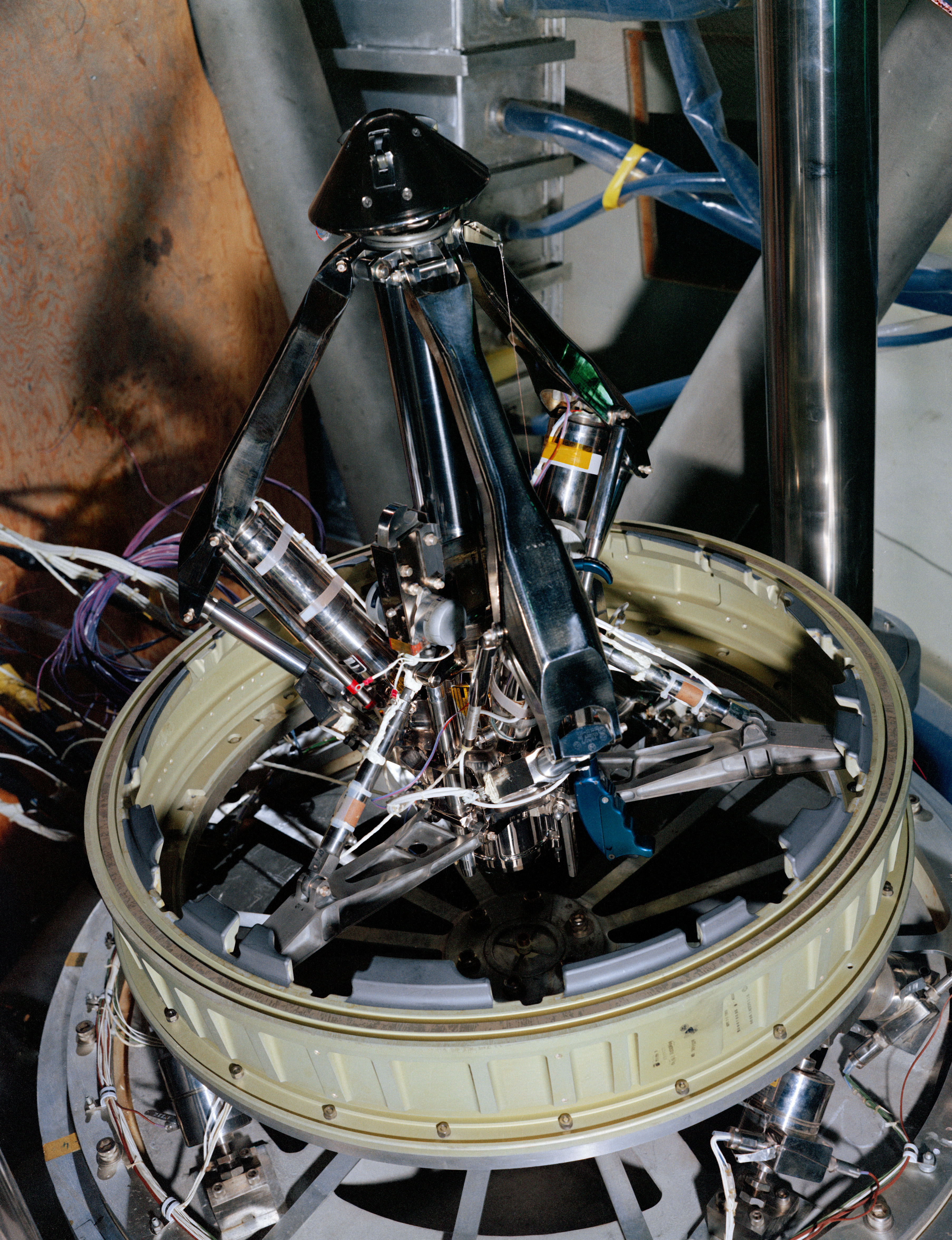 An engineering set up illustrating the probe portion of the docking system of the Apollo spacecraft. During docking maneuvers the docking probe on the Command Module (CM) engages the cone shaped drogue of the Lunar Module (LM). The primary docking structure is the tunnel through which the astronauts transfer from one module to the other. This tunnel is partly in the nose of the CM and partly in the top of the LM. Following CSM/LM docking the drogue and probe are removed to open the passageway between the modules. Pressure seals have not been installed.